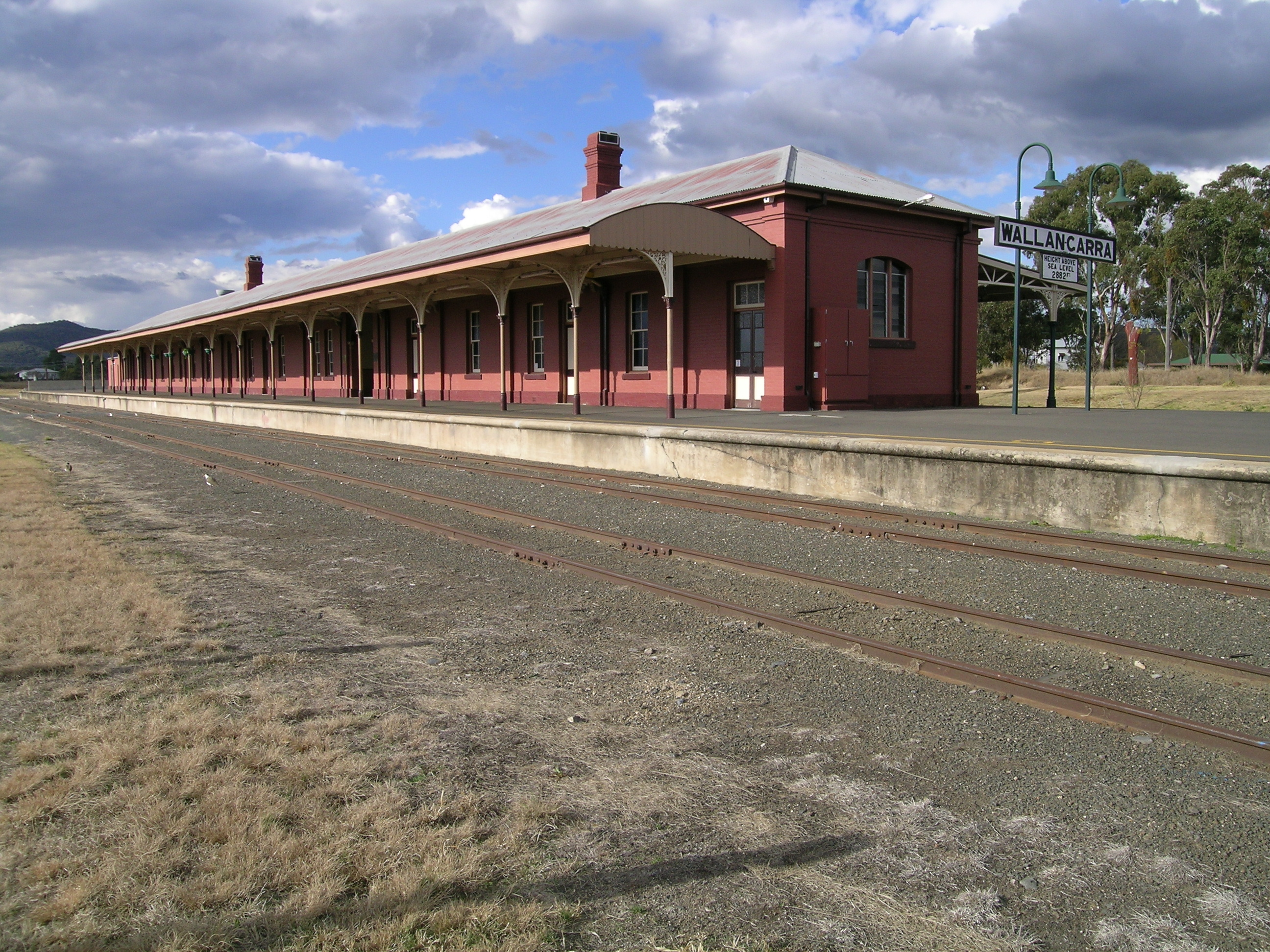 Railway station, Wallangarra, QLD. This was also used as the Jennings railway station until the NSW rail service stopped at Armidale, NSW.